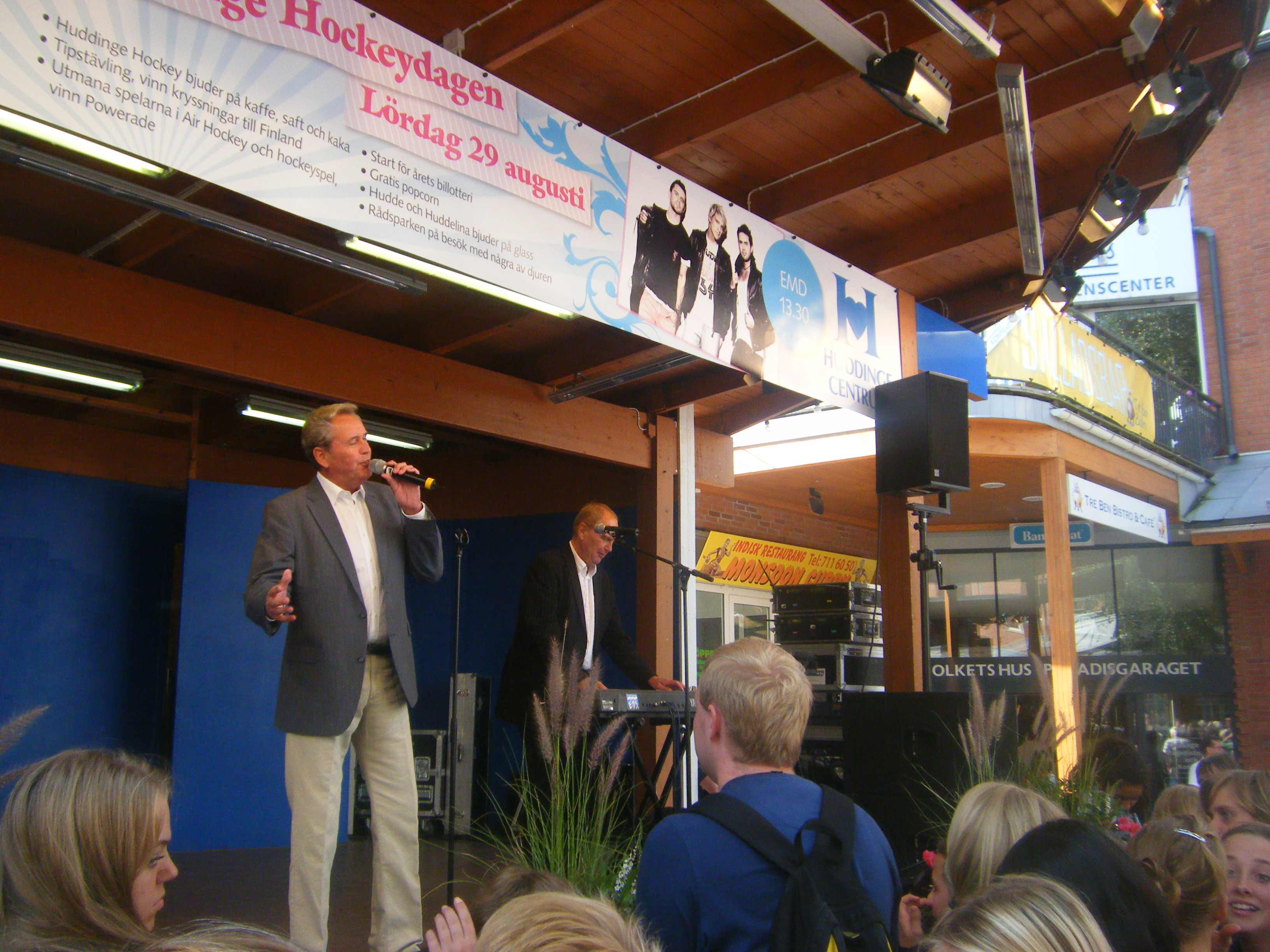 Sten & Stanley in Huddinge, Sweden.